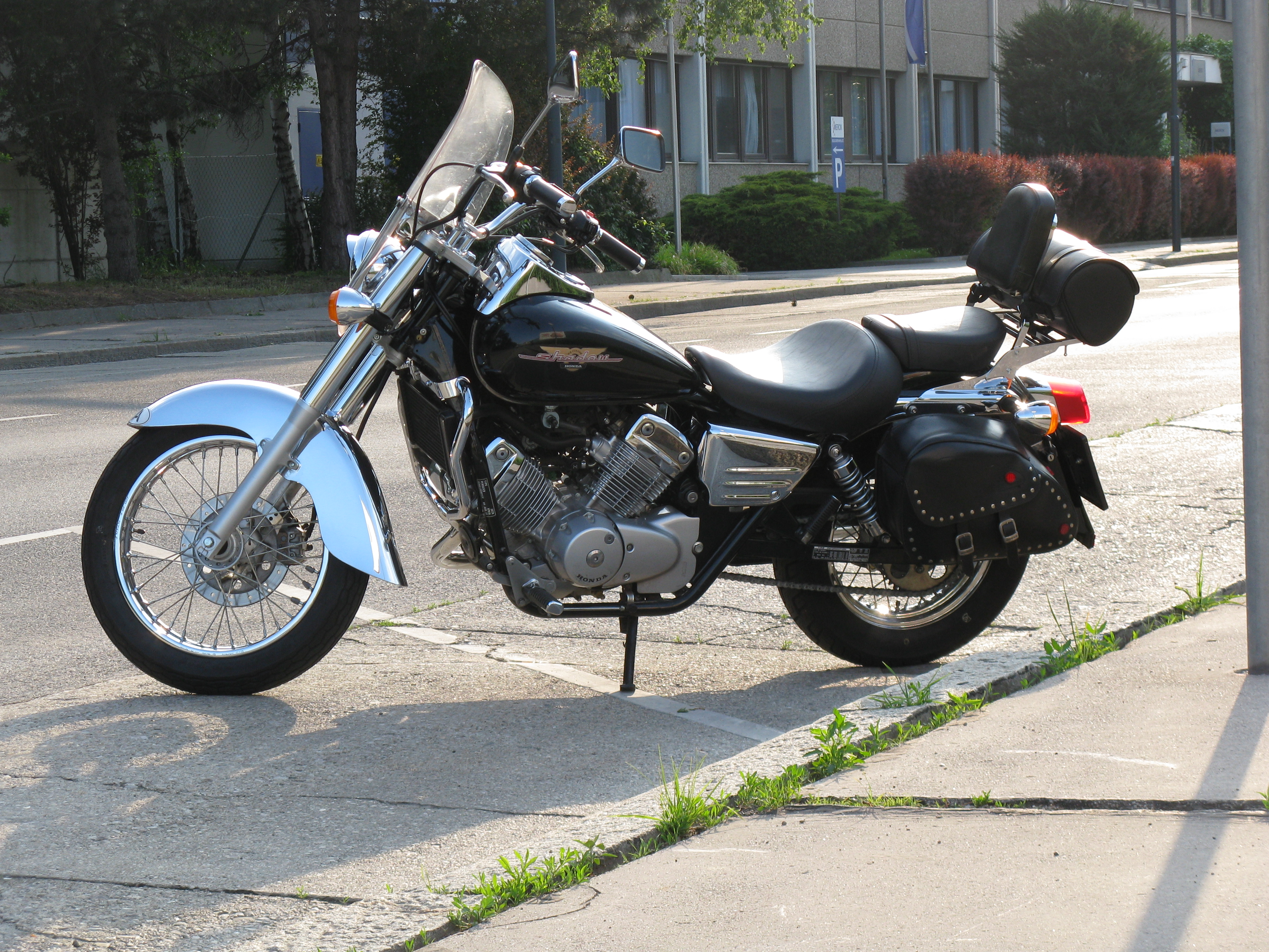 Honda Shadow VT 125 C1 with original Honda Accessoires